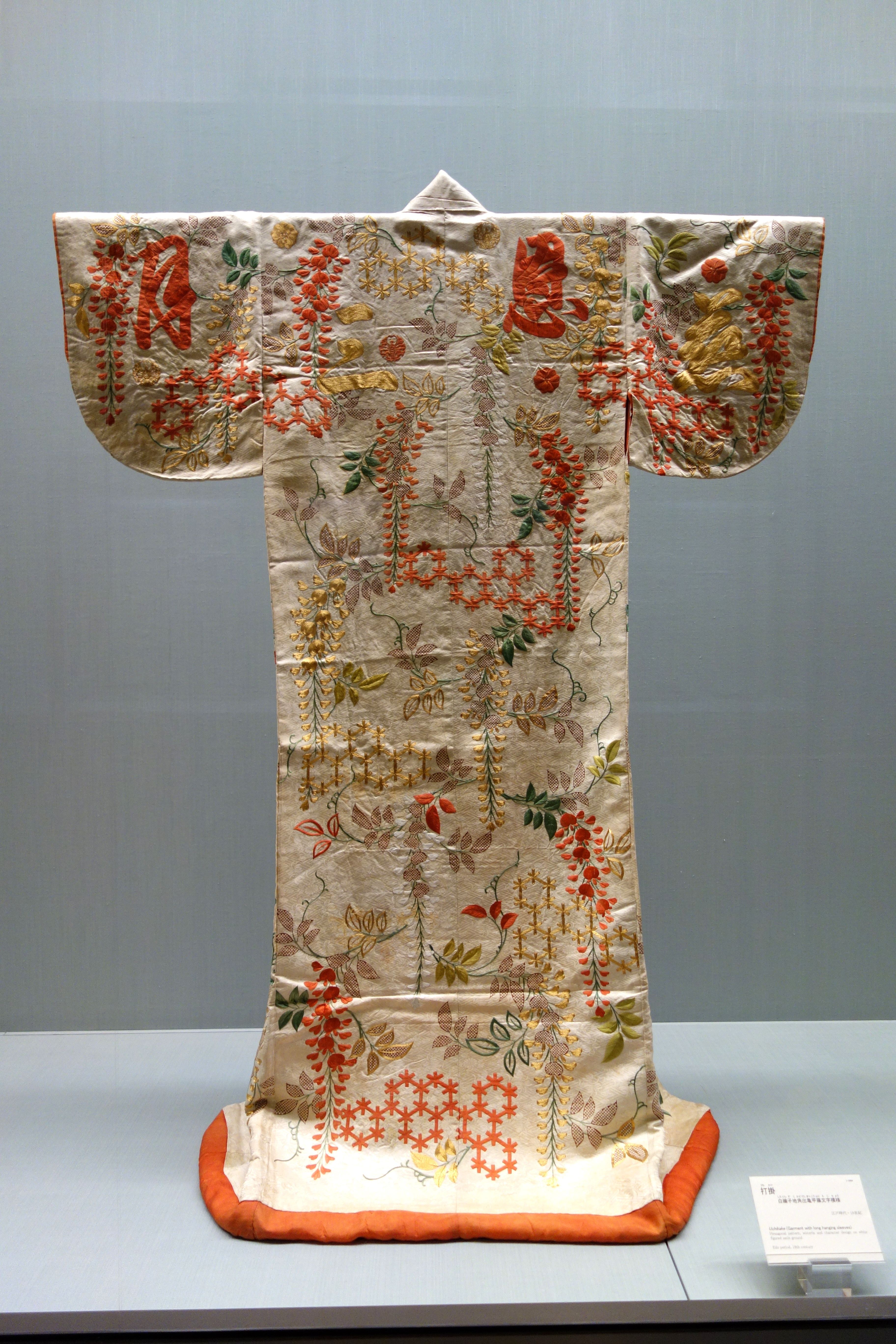 Exhibit in the Tokyo National Museum, Tokyo, Japan. This artwork is old enough so that it is in the public domain.